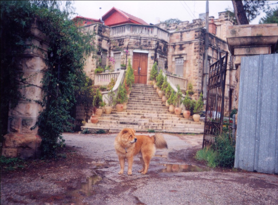 A house and its guard in Talbiya, West-JLM Israel.